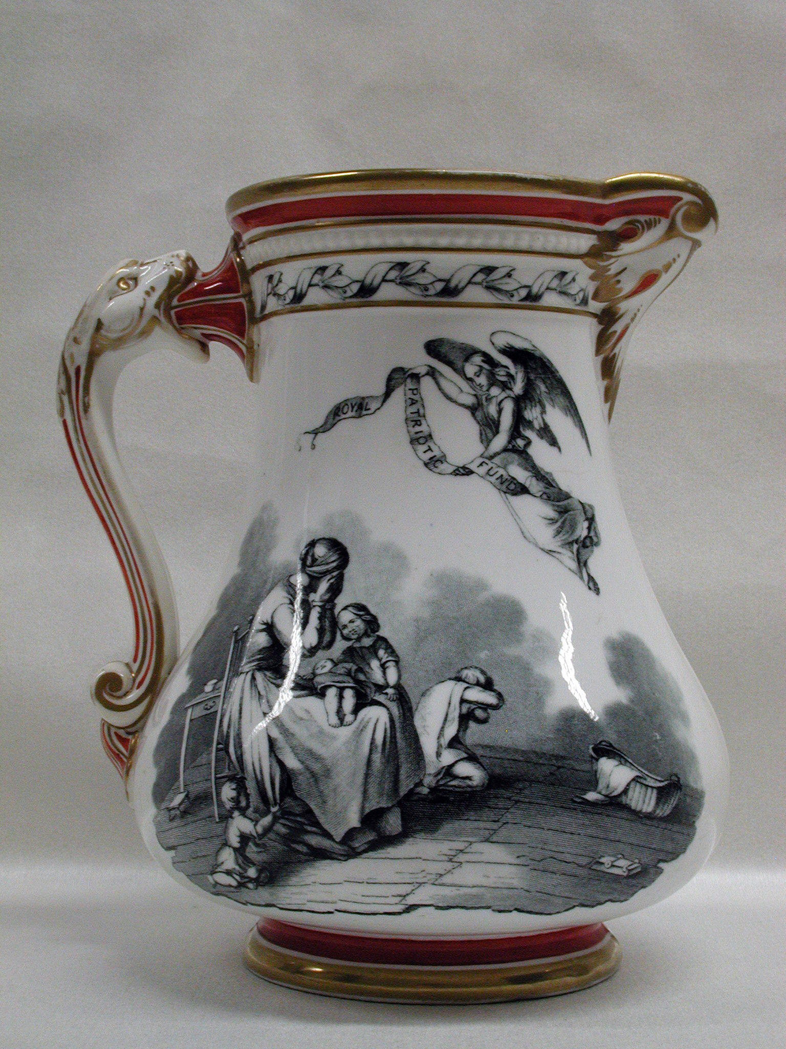 British, Burslem, Staffordshire; Jug; Ceramics-Porcelain